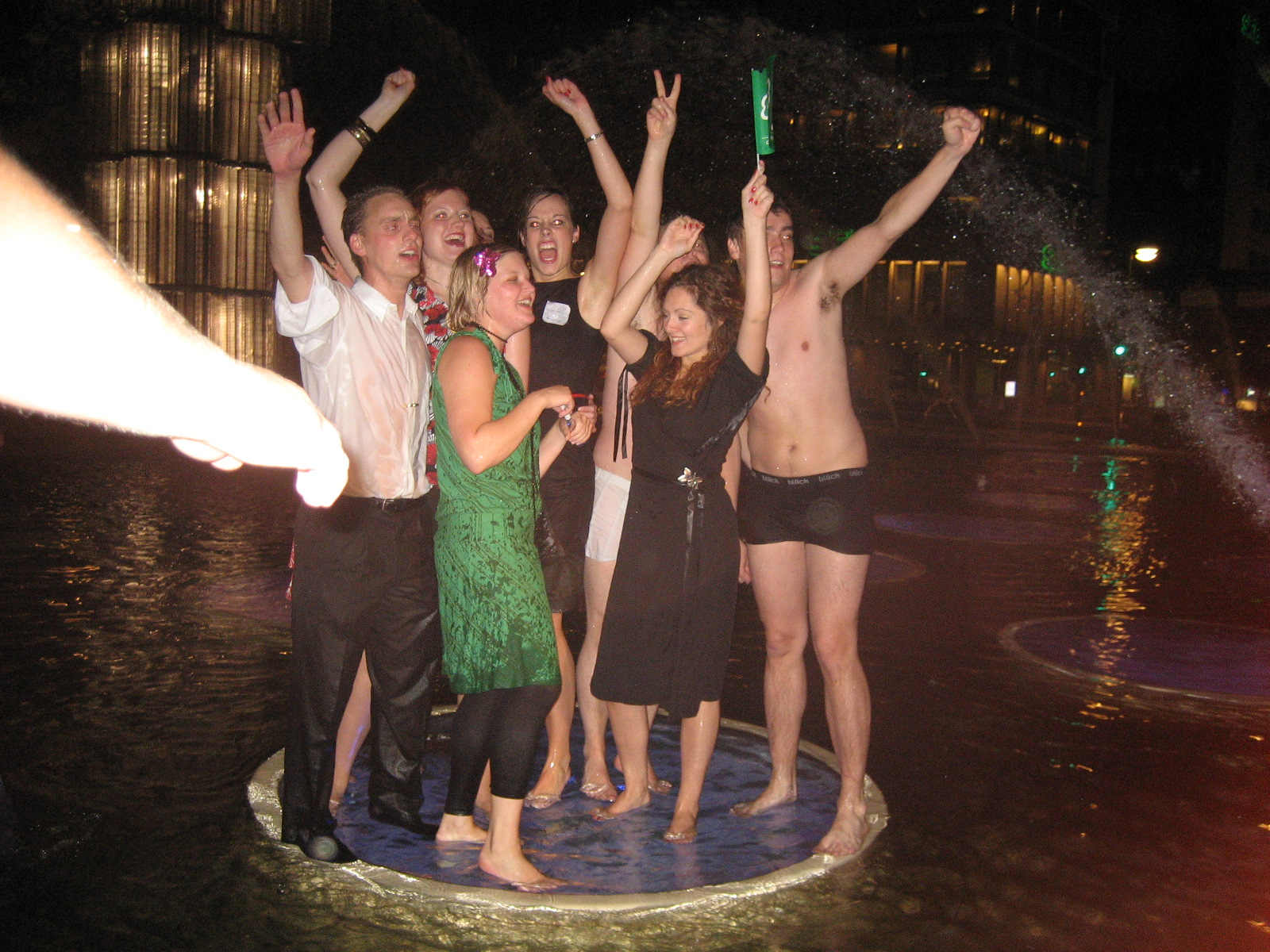 Alliance for Sweden supporters celebrates the victory in the 2006 general election, at the fountain at Sergels Torg in Stockholm.